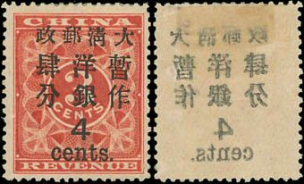 red 40